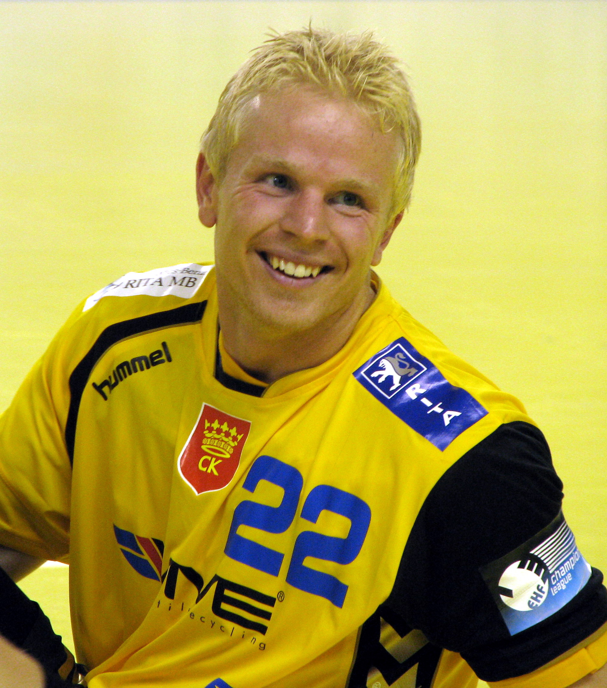 Henrik Knudsen - Vive Kielce handball player